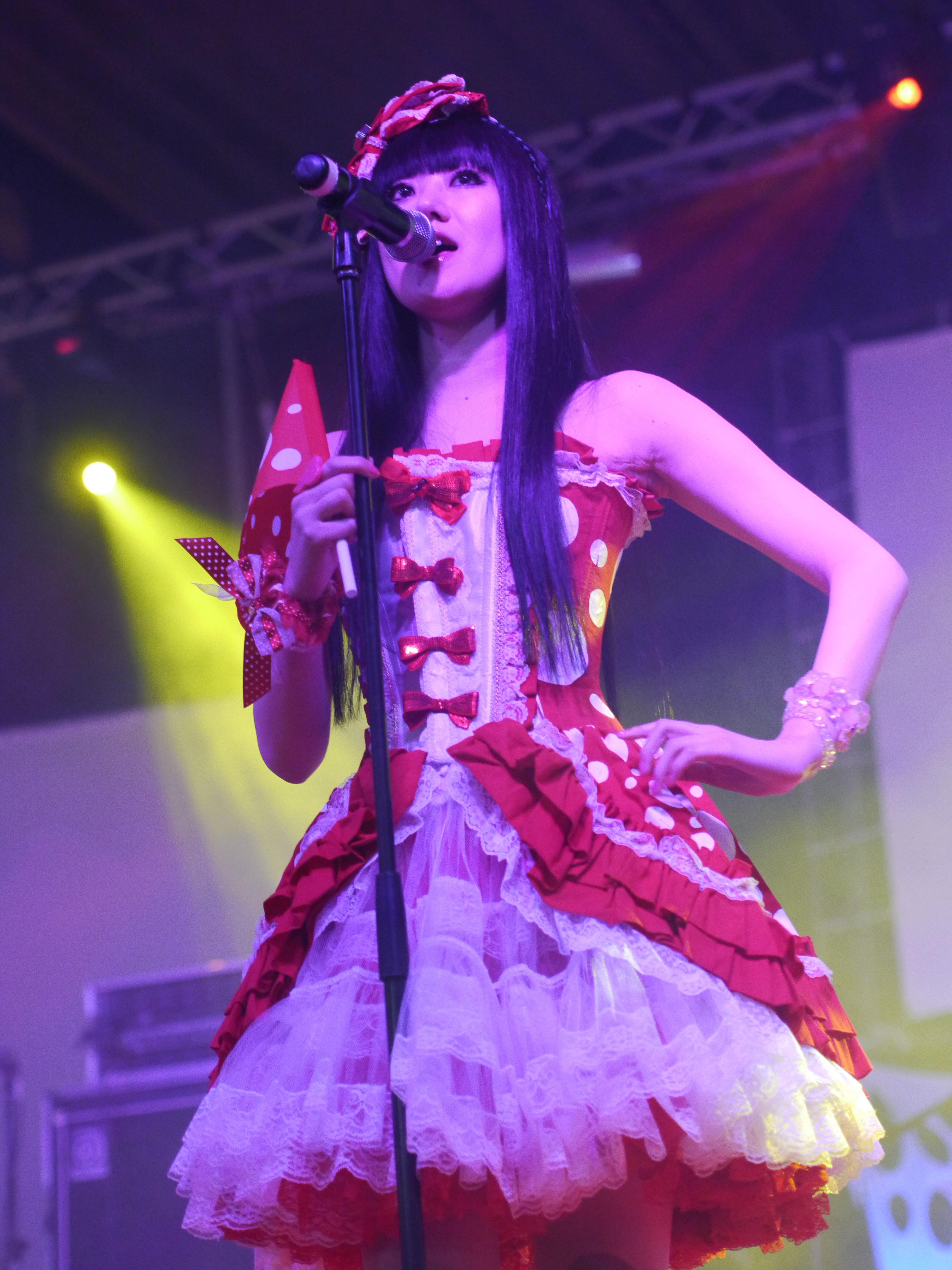 Toulouse Game Show Festival, 6th edition.